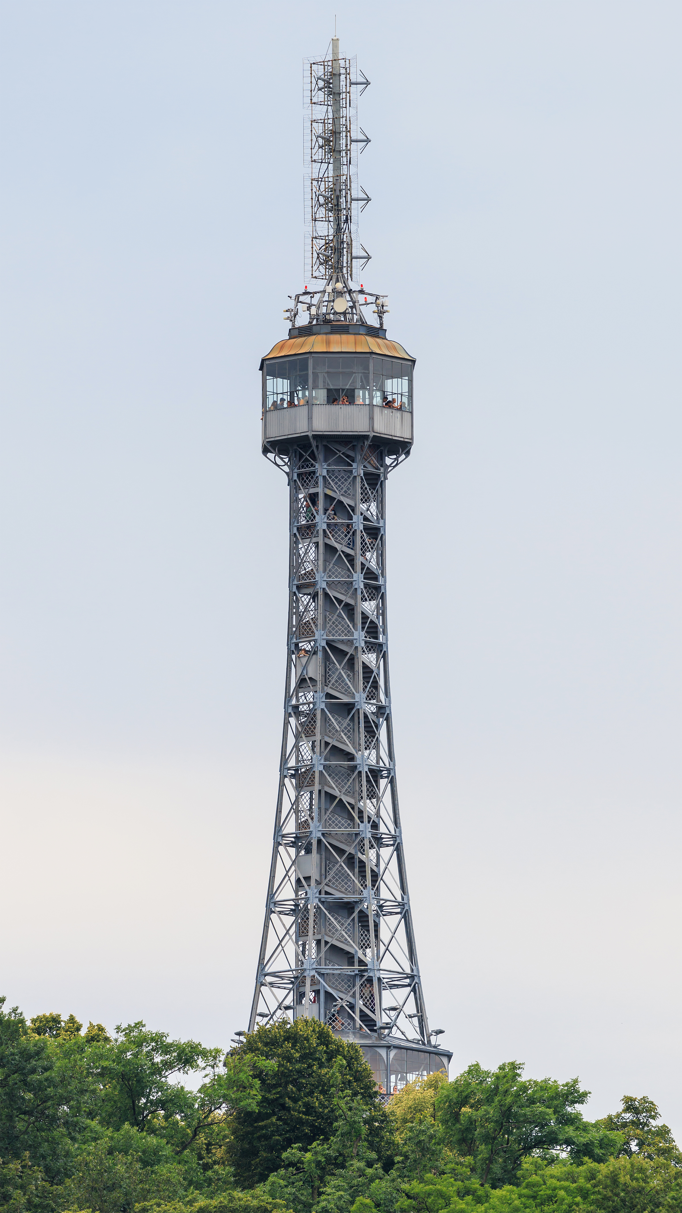 View from St.Nicholas Church in Lesser Town in Prague (Czech Republic) – Petřín Lookout Tower